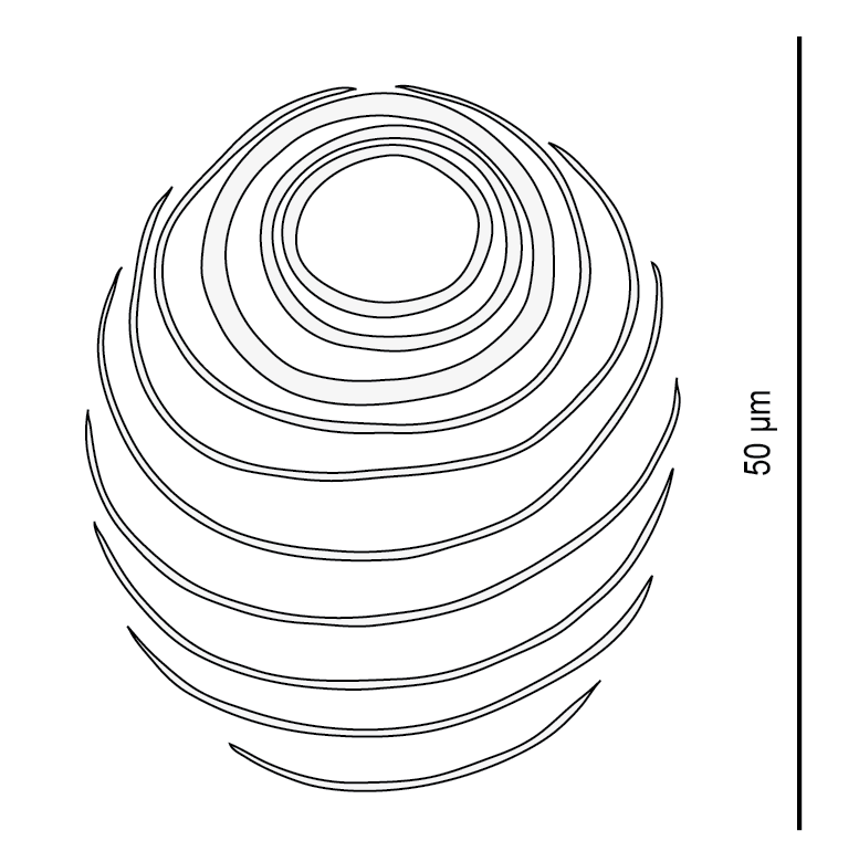 Lamellodisc of Calydiscoides euzeti Justine, 2007 (Monogenea, Monopisthocotylea, Diplectanidae), a parasite on the gills of the fish Lethrinus rubrioperculatus (Teleostei, Perciformes, Lethrinidae), New Caledonia